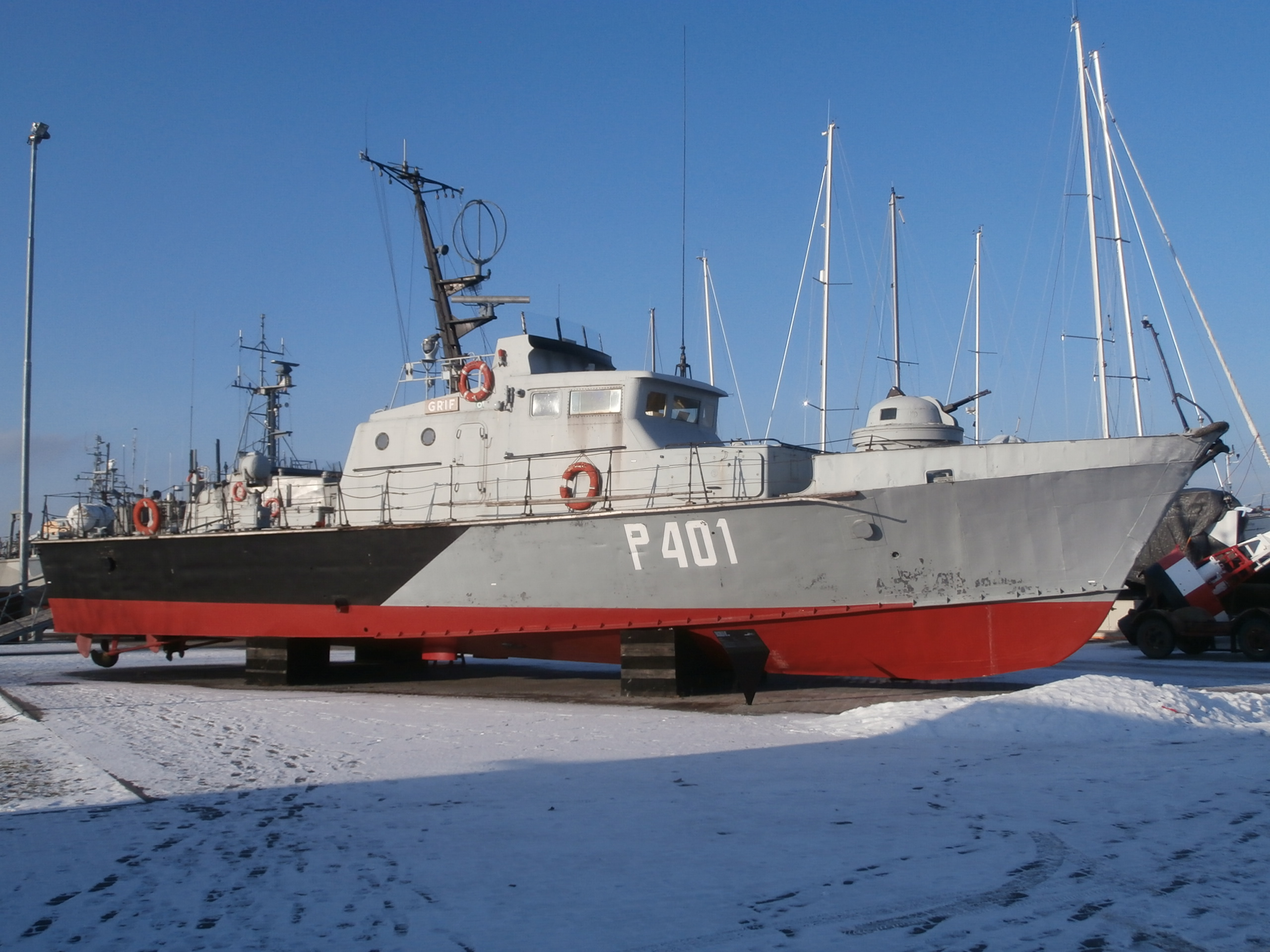 P401 Grif in Lennusadam Tallinn 30 January 2015